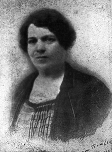 Euthymia Piatsa Kiriakopoulou